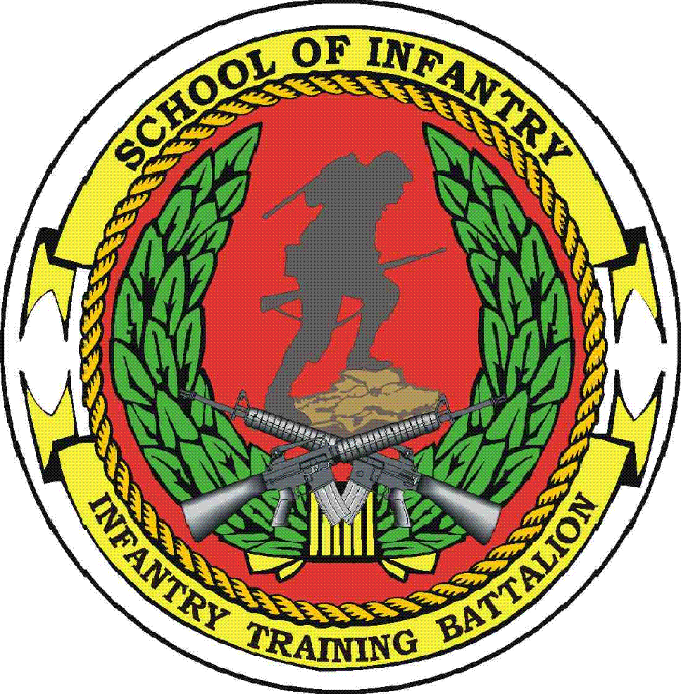 Official logo of Infantry Training Battalion